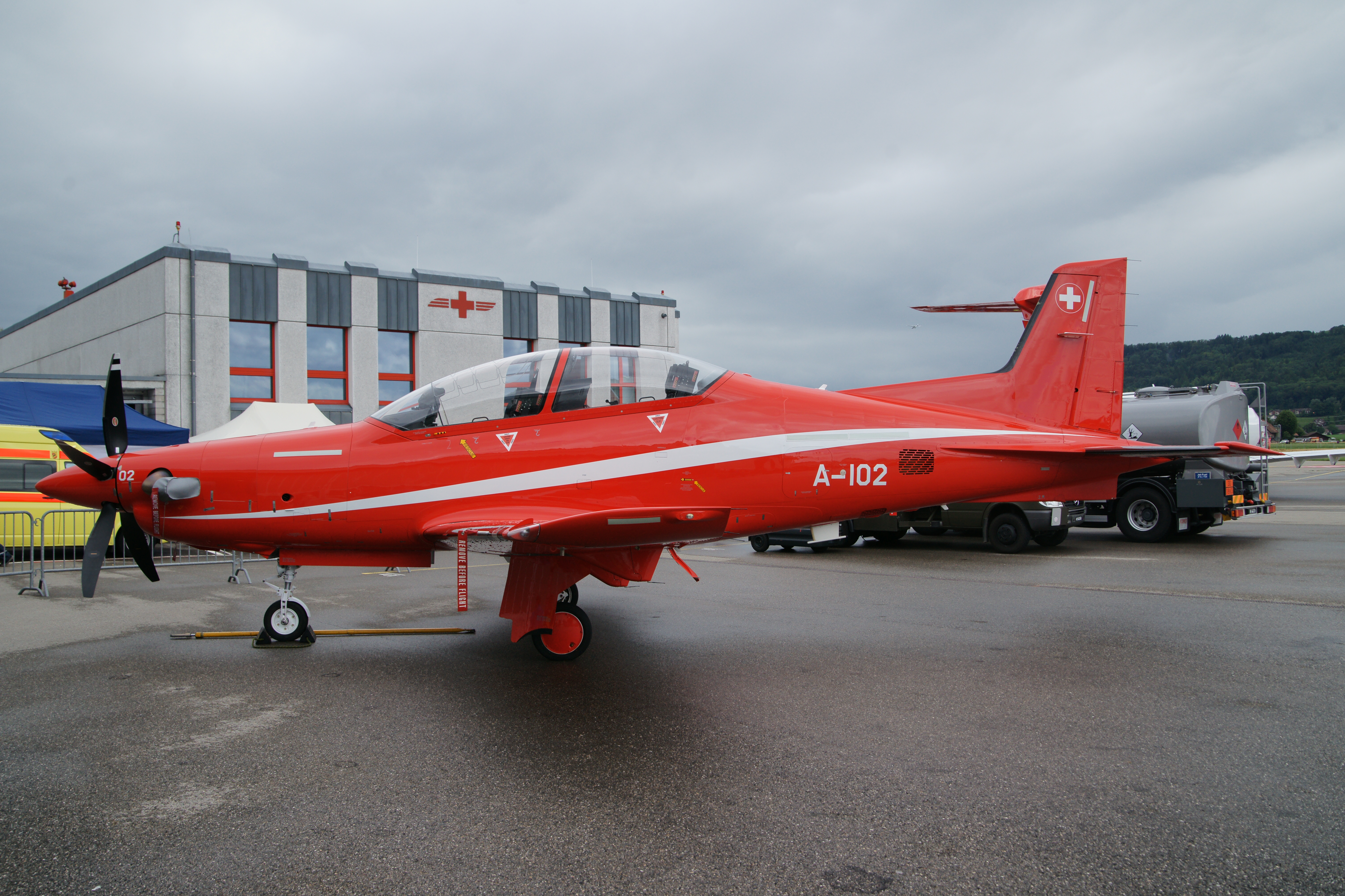 Swiss Air Force PC-21 (A-102) of the Swiss Air Force, Bern-Belp airport, Switzerland.